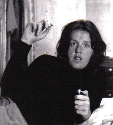 Janet Hamill Publicity Photo